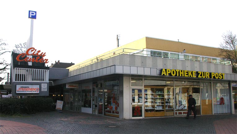 The City Center in Witten on 23rd January 2007. The future of the center is up for discussion, an investor plans to demolish the building and the Witten main post office, to build in its place a mall with more than 40 stores.